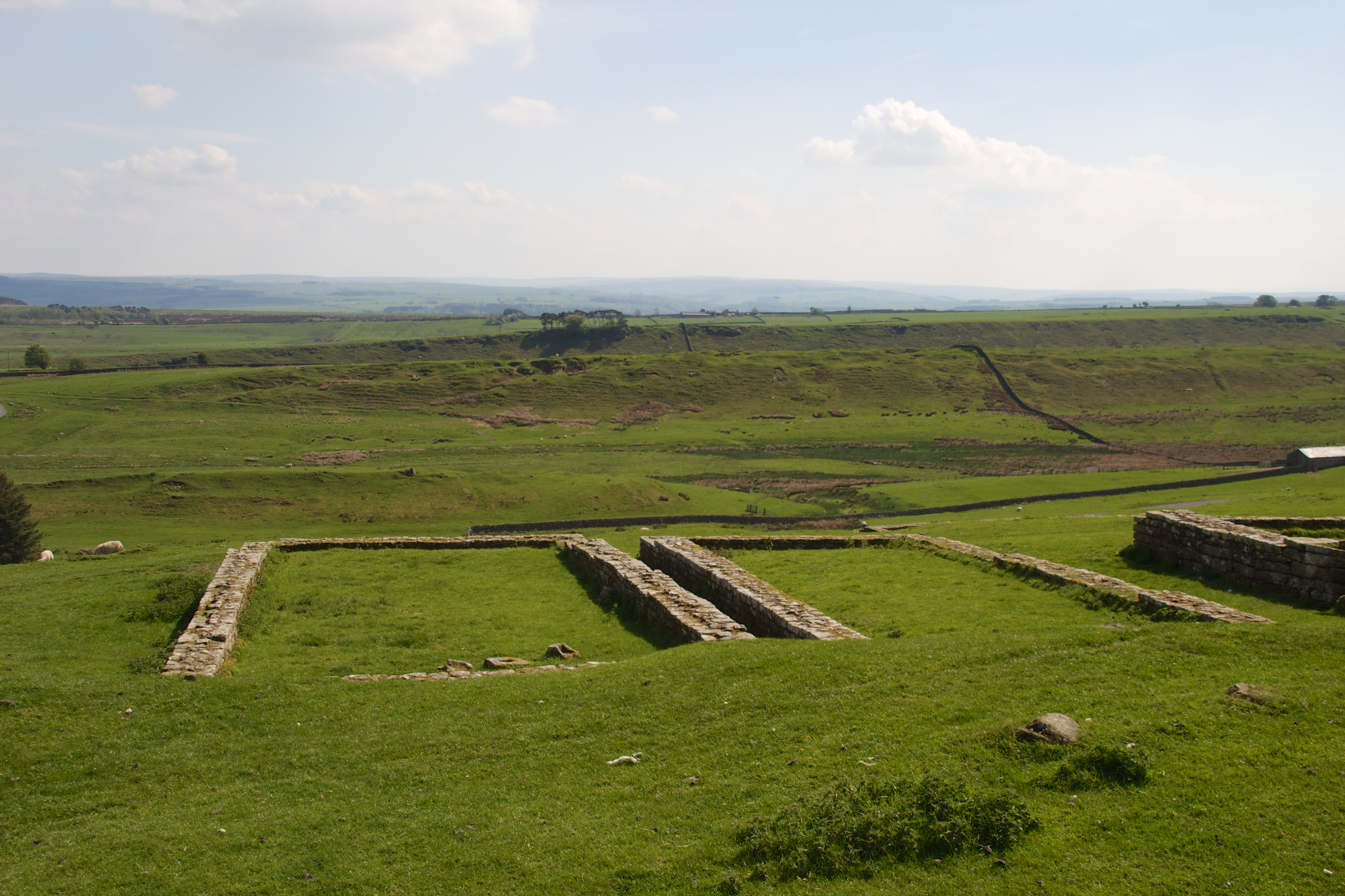 Ruins of four buildings of the civil settlement (vicus) just south of the Roman fort of Housesteads, along Hadrian's Wall.